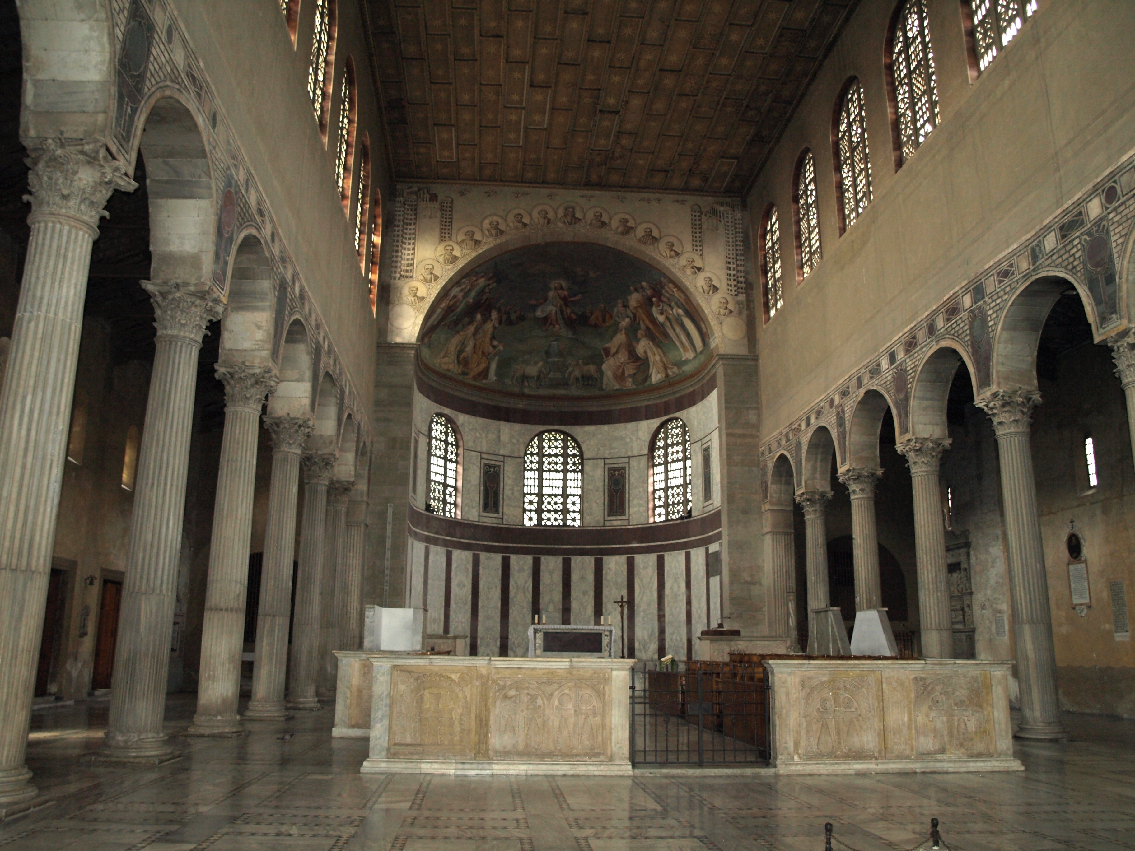 Santa Sabina